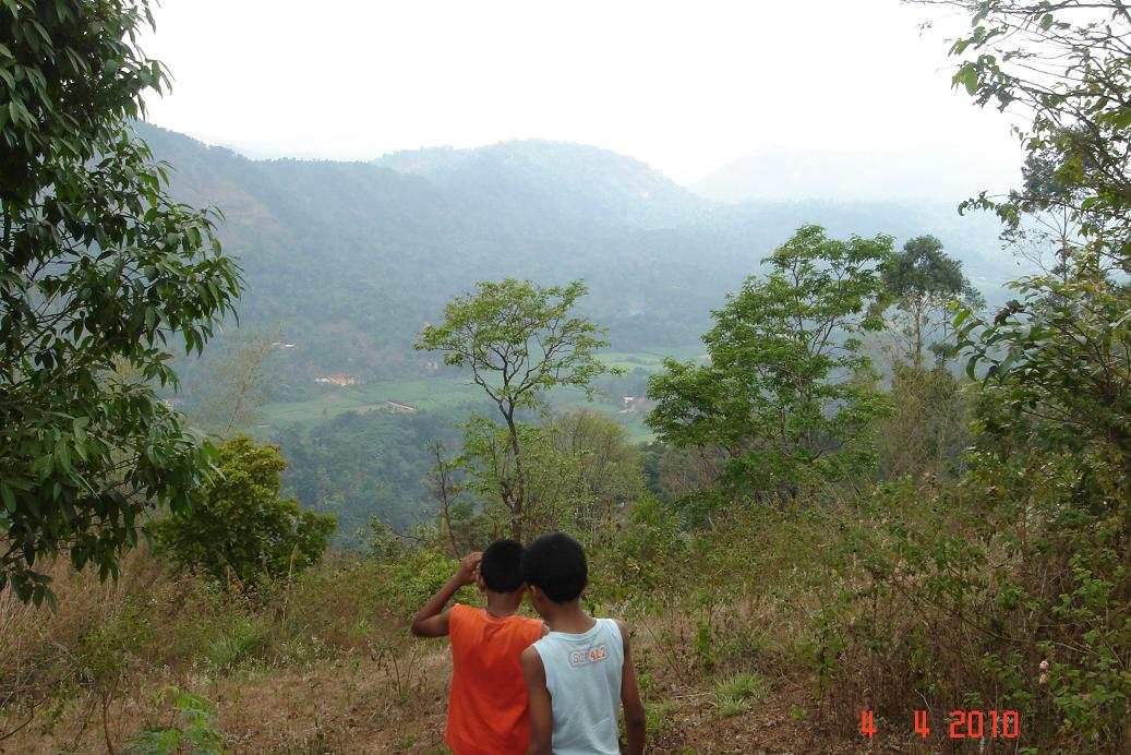 Parathode - Pullukandowm - View from top of hill